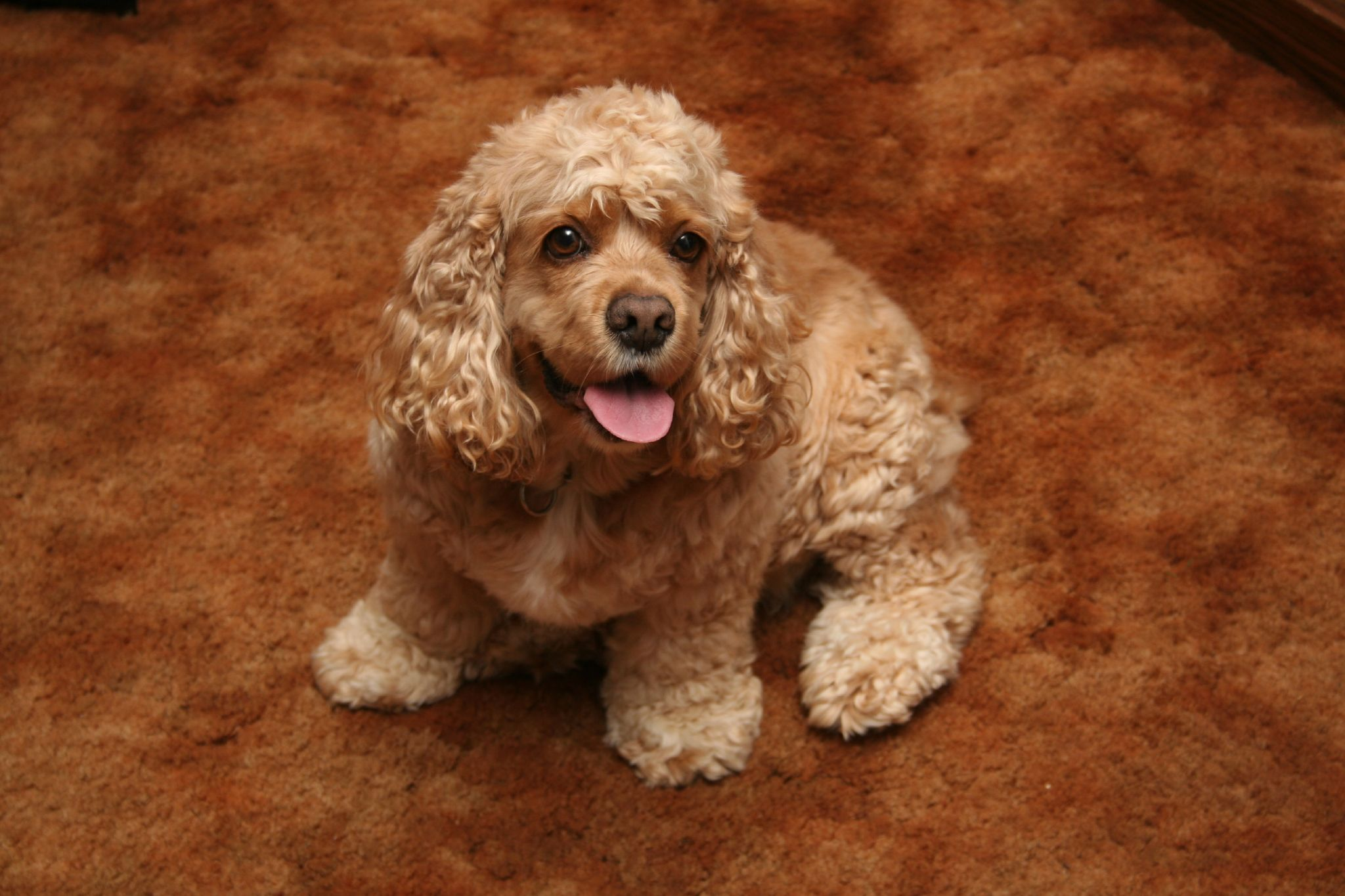 When I'm not taking photos of humans, I'm using my dog as a test subject. Because of this, I often visualize my actual subjects as dogs! Light bounced off ceiling.